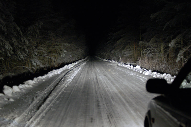 A Toyota Corolla in Finland 2005, full beam produced by H4 halogen bulbs. Same situation with dipped beams and full beam plus extra lights (driving lights).